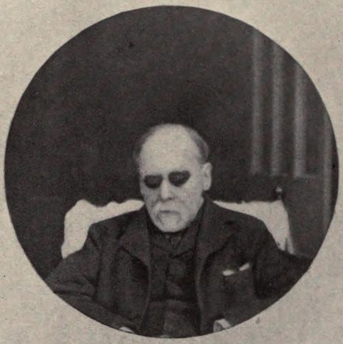 Samuel Barrett Miles (2 October 1838 - 28 August 1914) was a British Army officer who served as a diplomat in various Arabic-speaking countries, notably Oman, which he came to know better than any other European of the time. The notes that he made were published after his death as The Countries and Tribes of the Persian Gulf. This photograph was published as the frontispiece to The Countries and Tribes of the Persian Gulf (1919: Harrison and Sons) and would have been taken before his death in 1914. The photographer is not identified and the publisher is no longer in business.